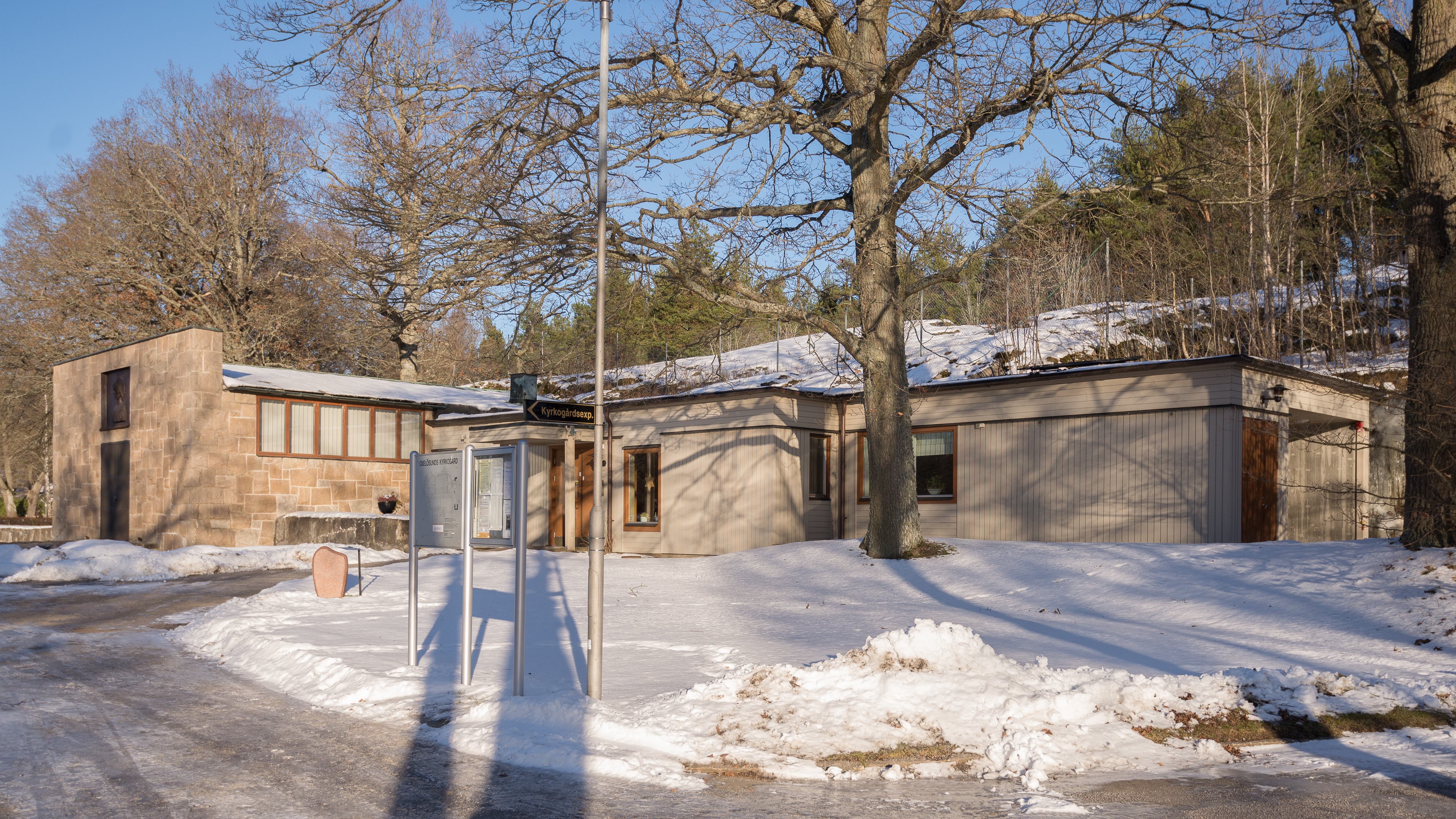 Frösängskapellet (Frösäng chapel). Oxelösund, Sweden. Built 1938.